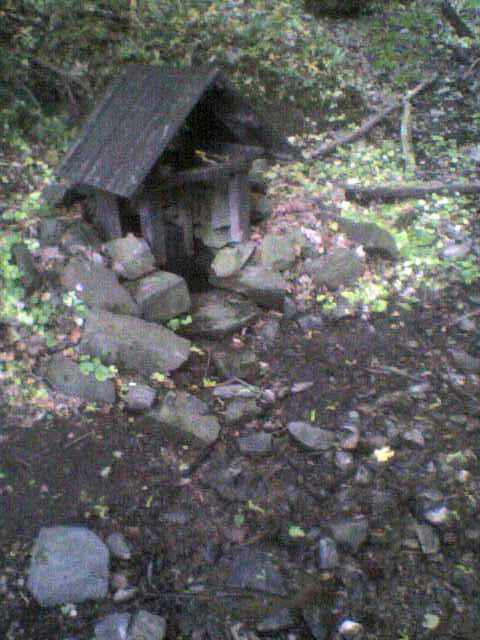 Spring unfar from Klíčavská přehrada